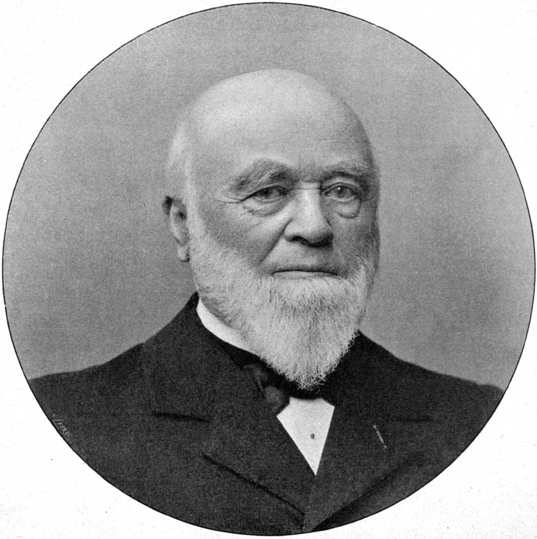 Rempt Tobias Hugo Pieter Liebrecht Alexander van Boneval Faure (1826-1909) Dutch jurist and politician